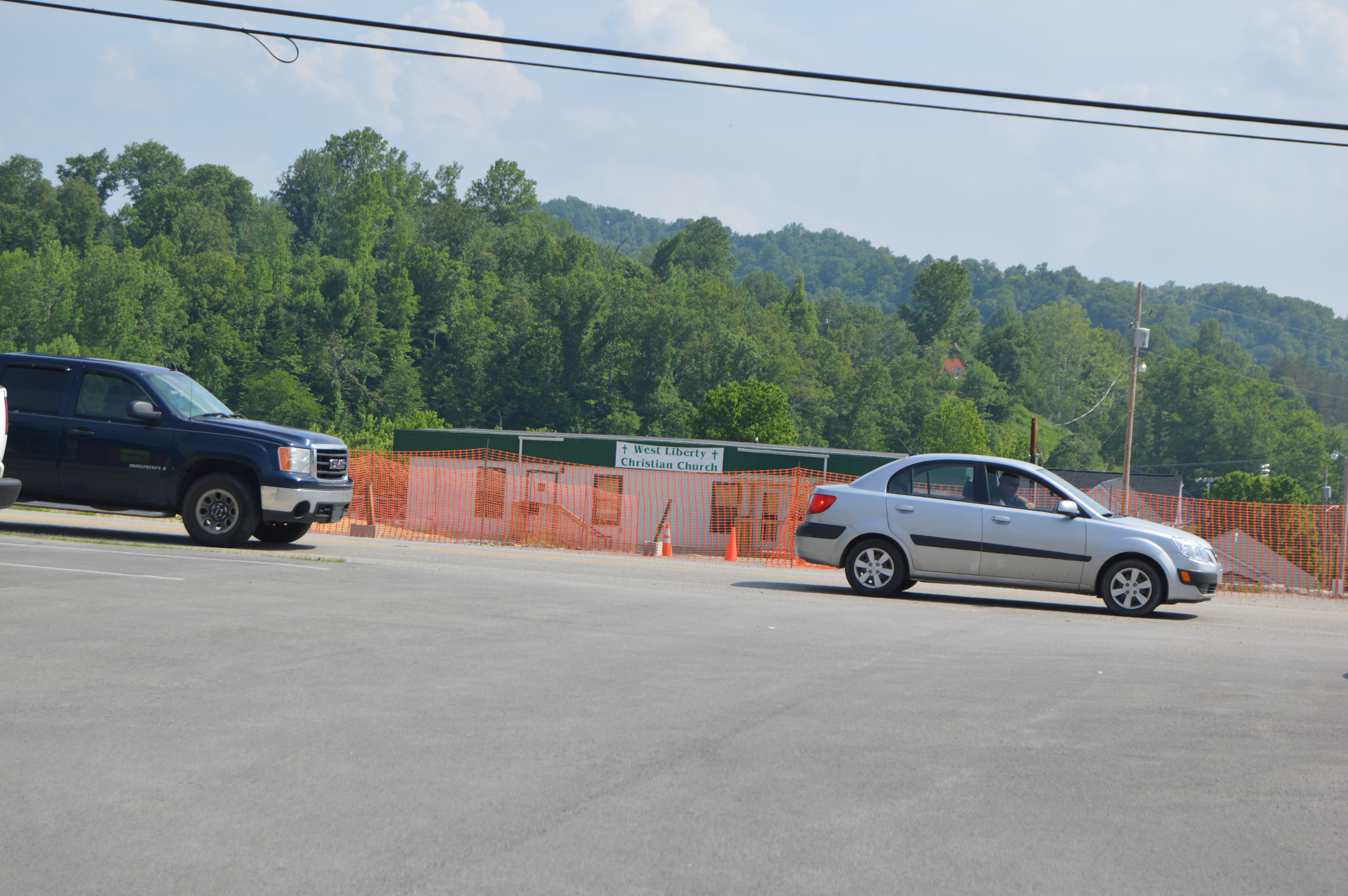 Looking across Prestonsburg Avenue (U.S. Route 460/Kentucky Route 7) east of Broadway Street in West Liberty, Kentucky, United States. Until a tornado on 2 March 2012, this was the site of the Christian Church of West Liberty, which was listed on the National Register of Historic Places; it has not yet been removed from the Register, despite its destruction.